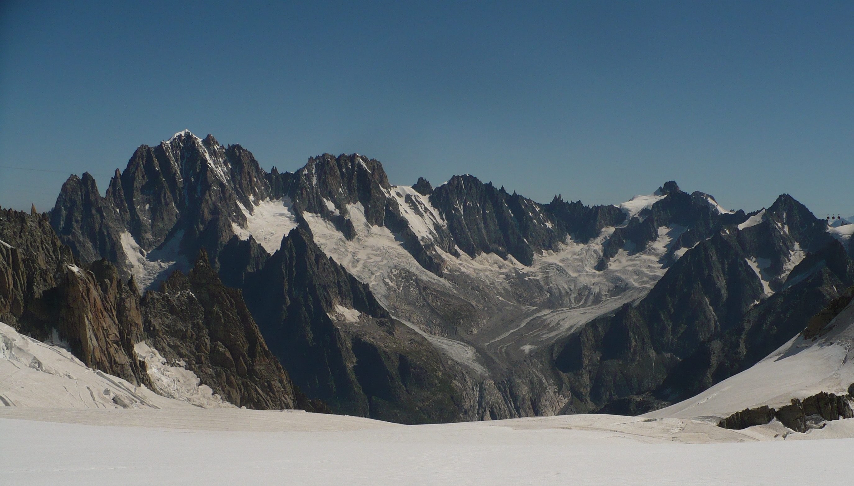 Glacier of Talèfre from La Vallèe Blanche - Mont Blanc massif - Graian Alps - Glciers of France